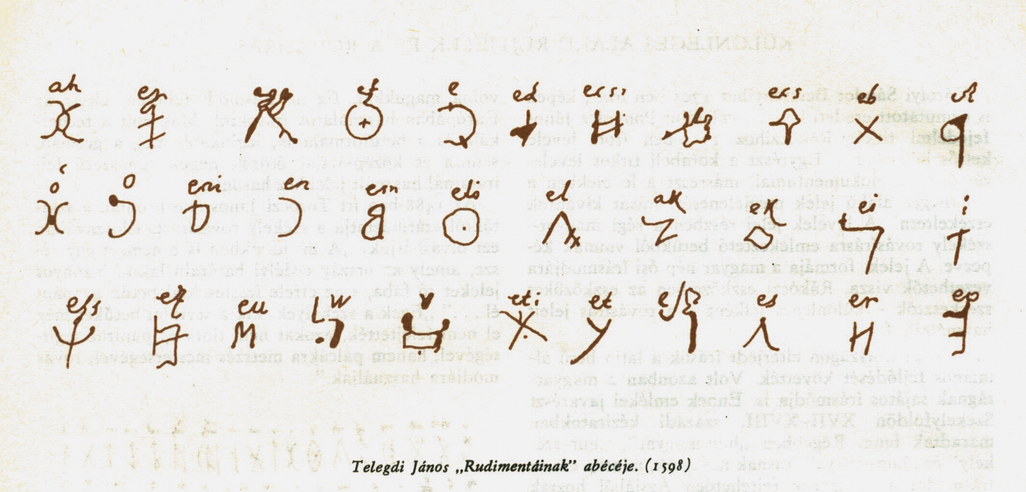 Explanation_of_the_Old_Hungarian_alphabet_by János Telegdi